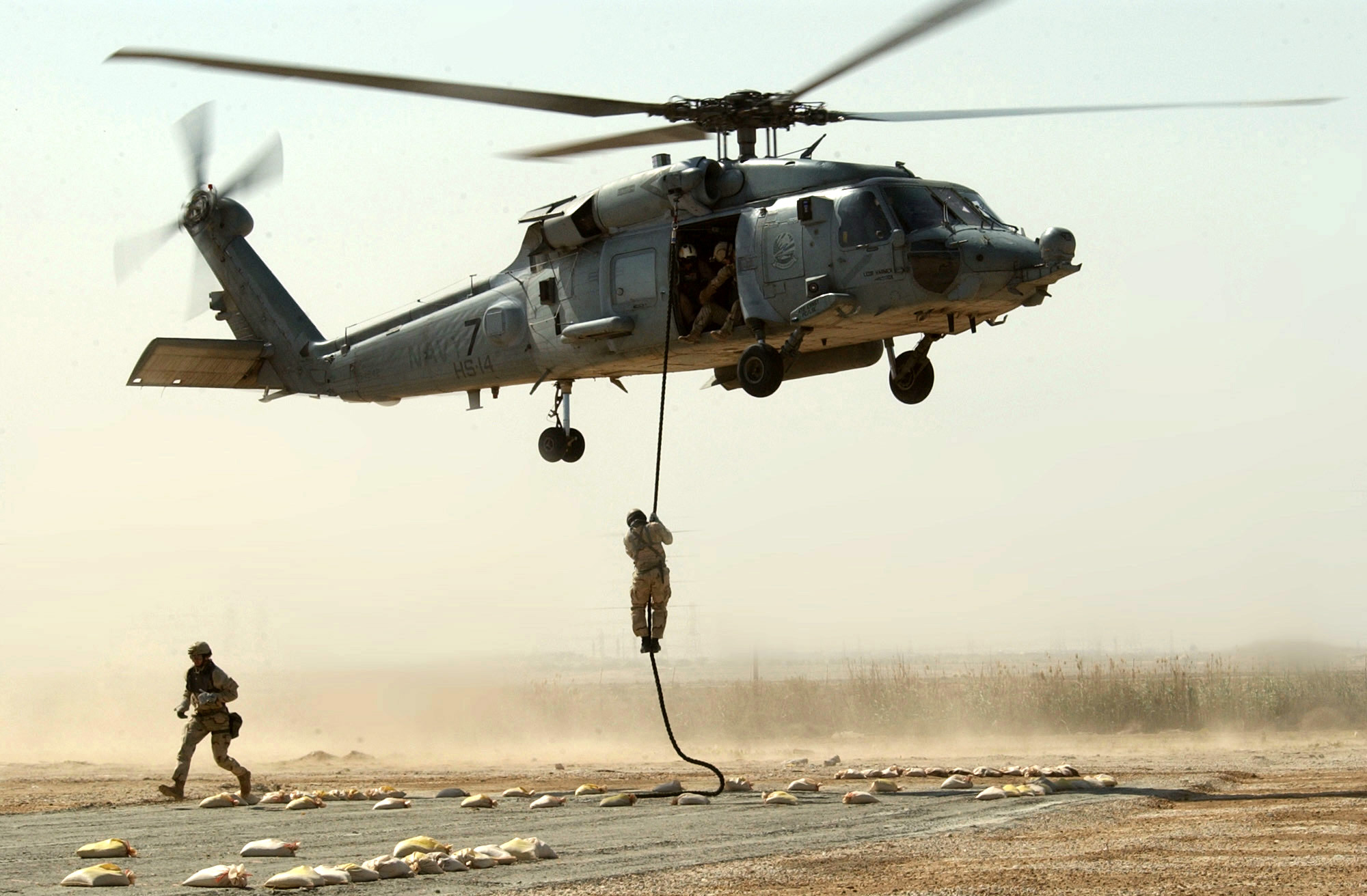 030317-N-5362A-004 Central Command Area of Responsibility (March 17, 2003) -- Members of a Naval Special Warfare team conduct a fast rope insertion training operation from an HH-60H Seahawk helicopter at a forward operating location. Official U.S. Navy photo by Photographer's Mate 1st Class Arlo K. Abrahamson. (RELEASED)